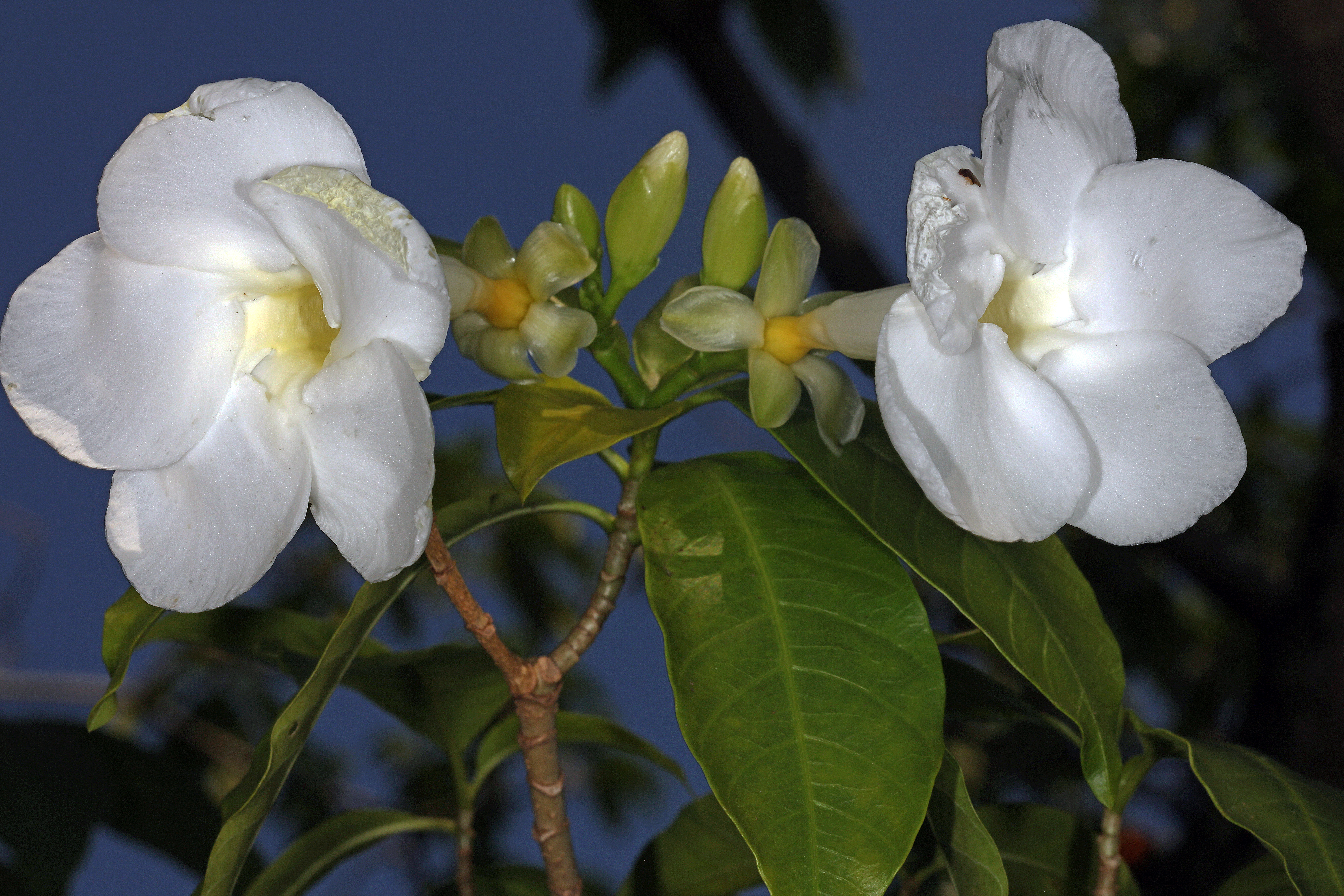 Tabernaemontana litoralis, flowers; Durban Botanical Garden, Durban, KwaZulu-Natal, South Africa